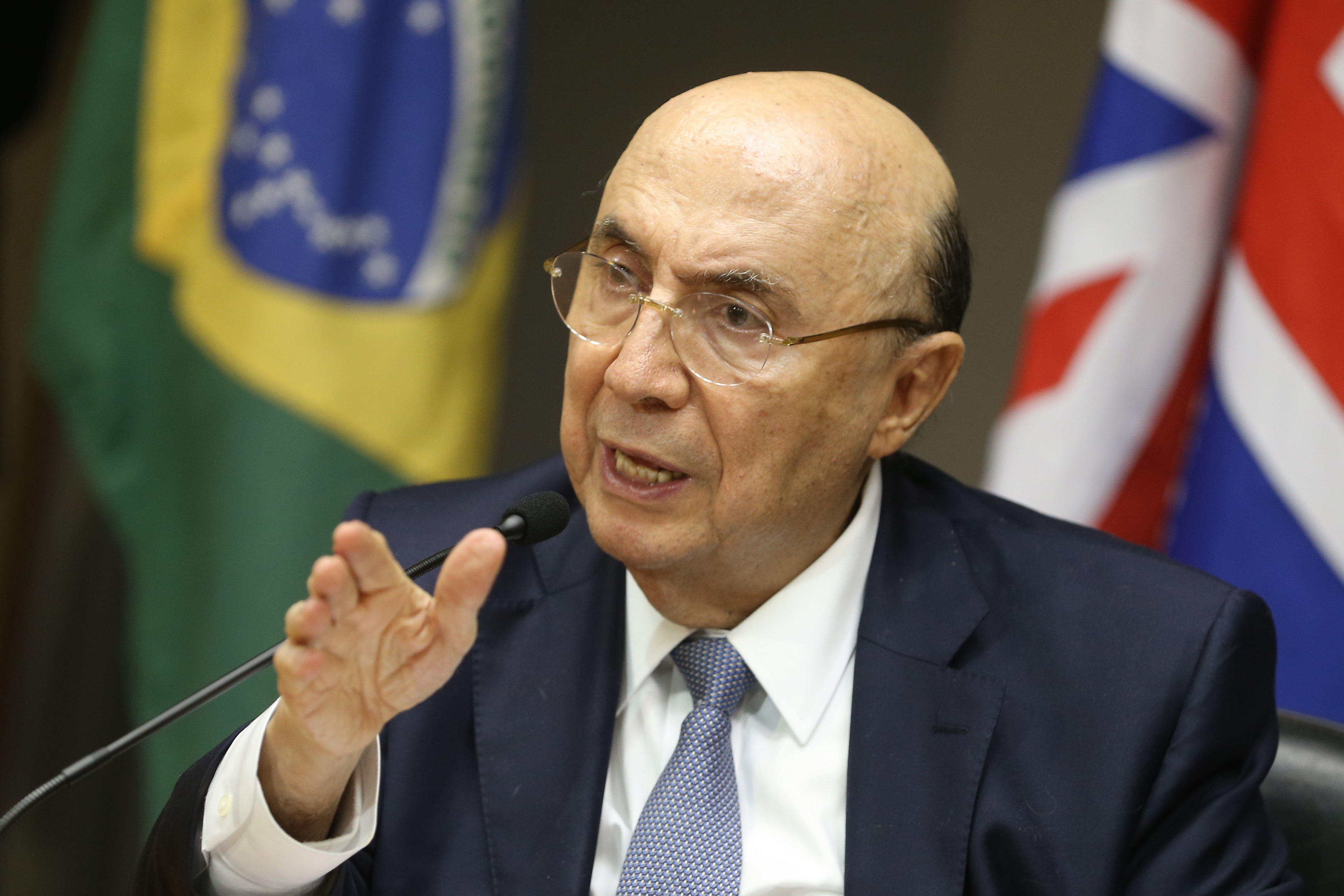 Brasília – O ministro da Fazenda, Henrique Meirelles, durante encontro com o ministro das Finanças do Reino Unido, Philip Hammond, no Ministério da Fazenda (Wilson Dias/Agência Brasil)